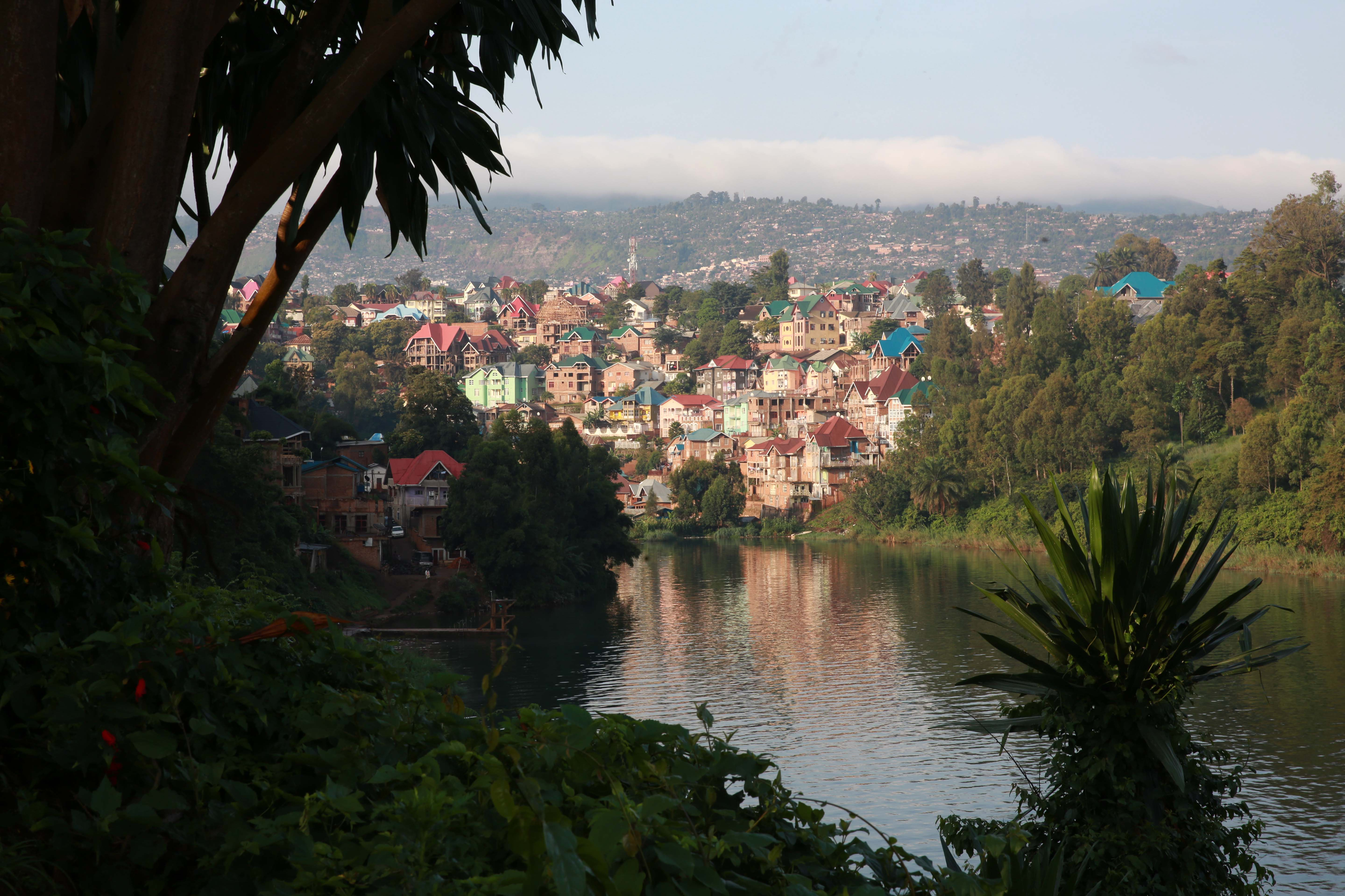 Dawn on lake Kivu, the earliest rays of sun caress the town of Bukavu (South Kivu).